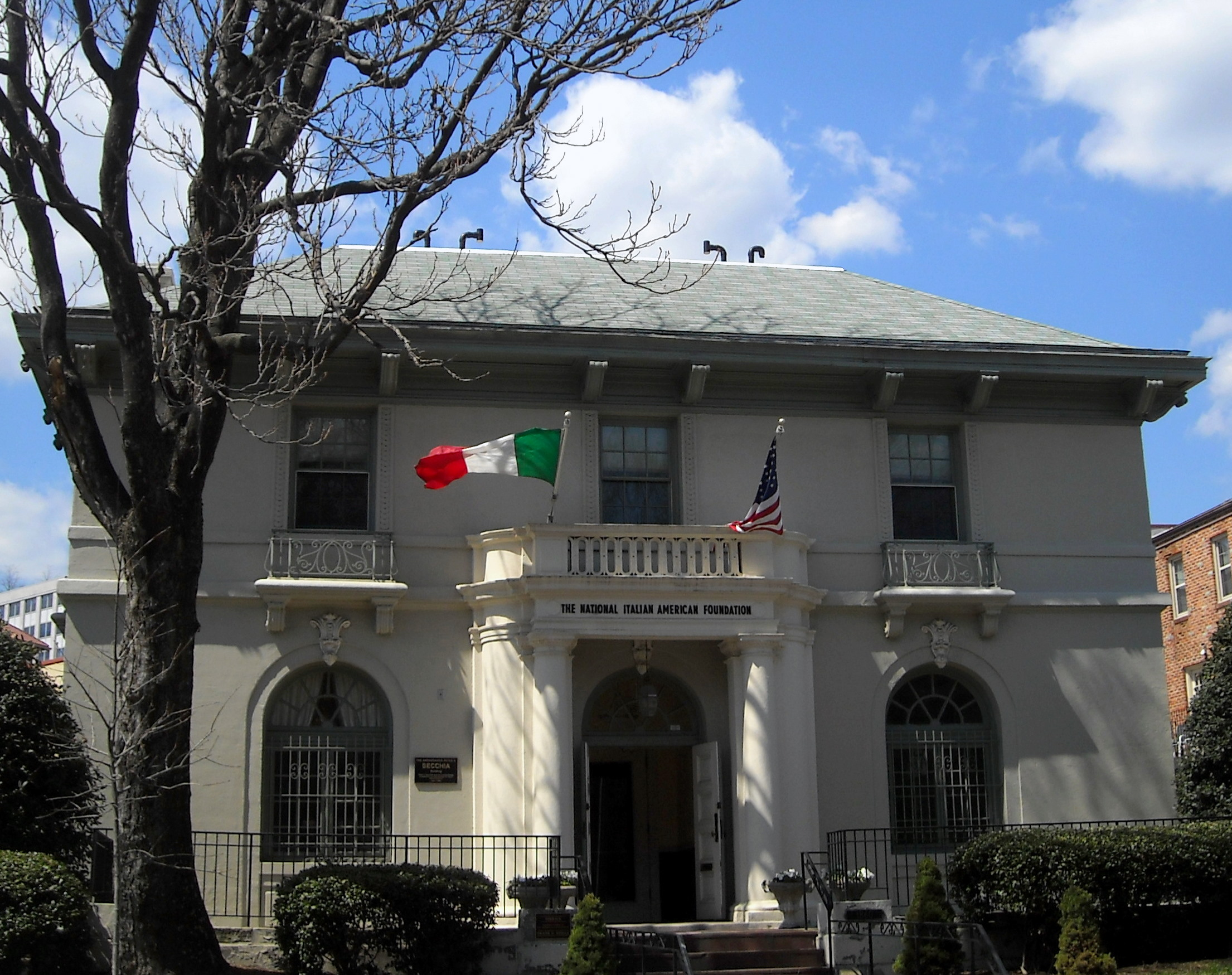 The headquarters of the National Italian American Foundation is located at 1860 19th Street NW in the Dupont Circle neighborhood of Washington, D.C. The building was designed by George Oakley Totten Jr. in 1907 for businessman Howard S. Reeside. It previously housed the School of Advanced International Studies, AIFLD Washington School, and National Association for Foreign Student Affairs. The building is a contributing property to the Dupont Circle Historic District.